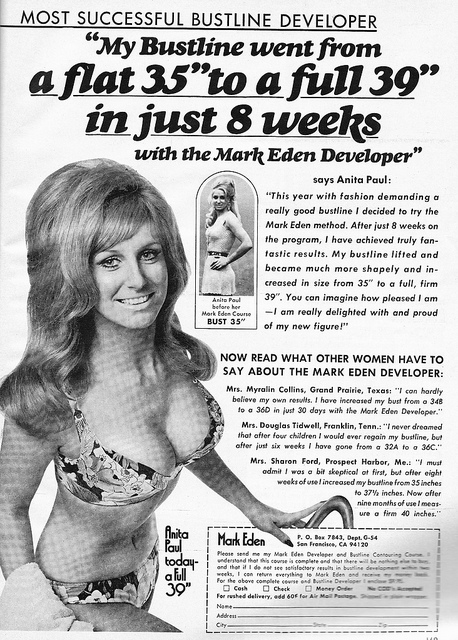 Full page magazine ad for the Mark Eden Bust Developer, published in a magazine w/o a separate copyright notice. This version must date to before 1966, when a USPS consent decree forbade the business from making specific claims about increasing breast size.